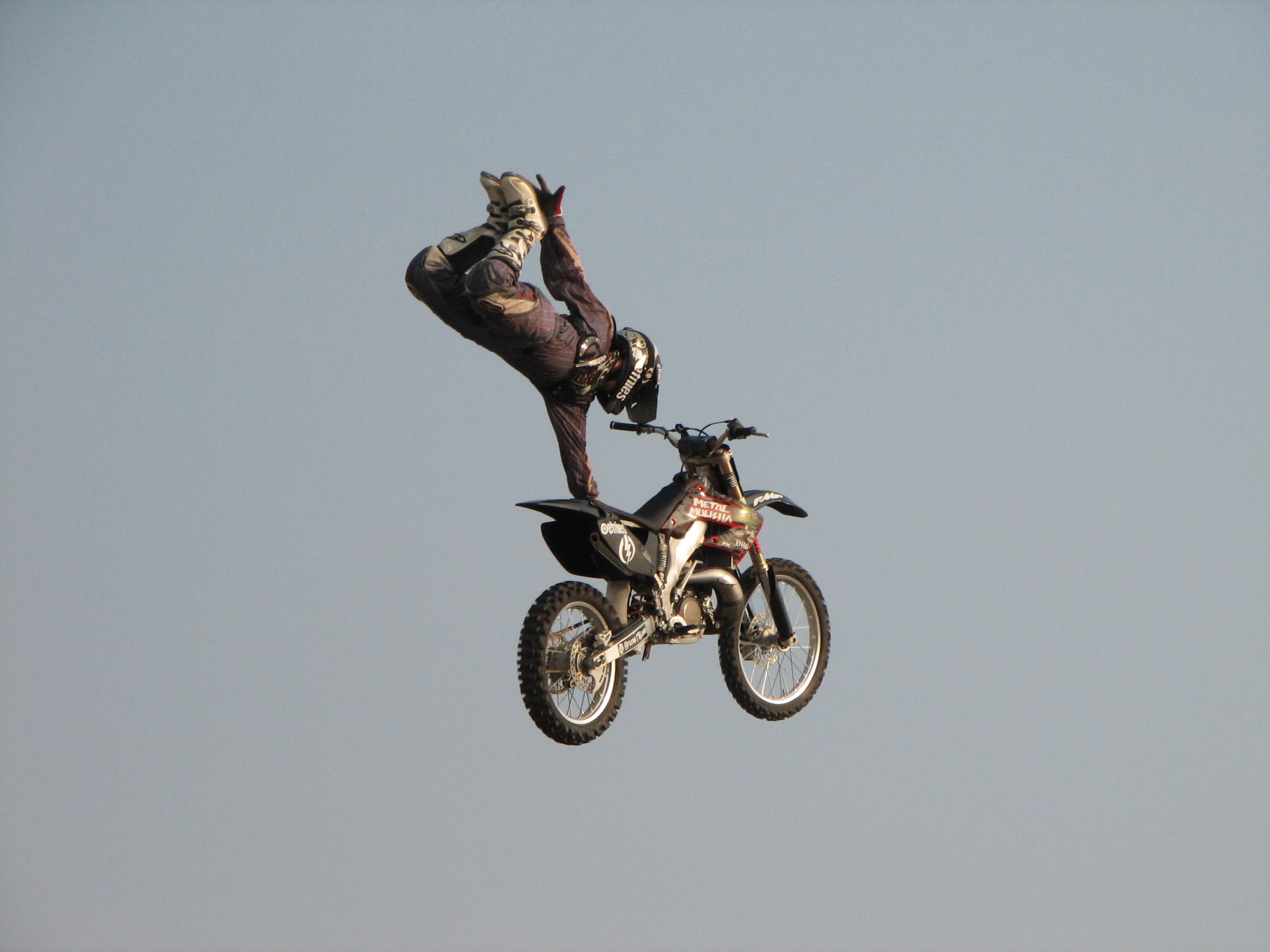 Motocross in Taiwan